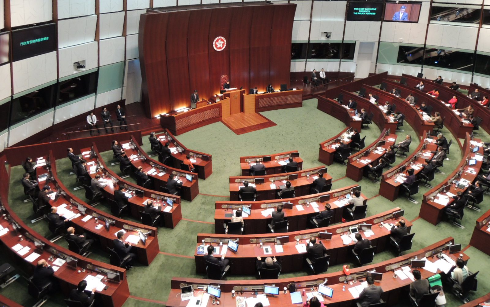 Hong Kong Chief Executive CY Leung presenting the 2013 Policy Address to the Legislative Council.